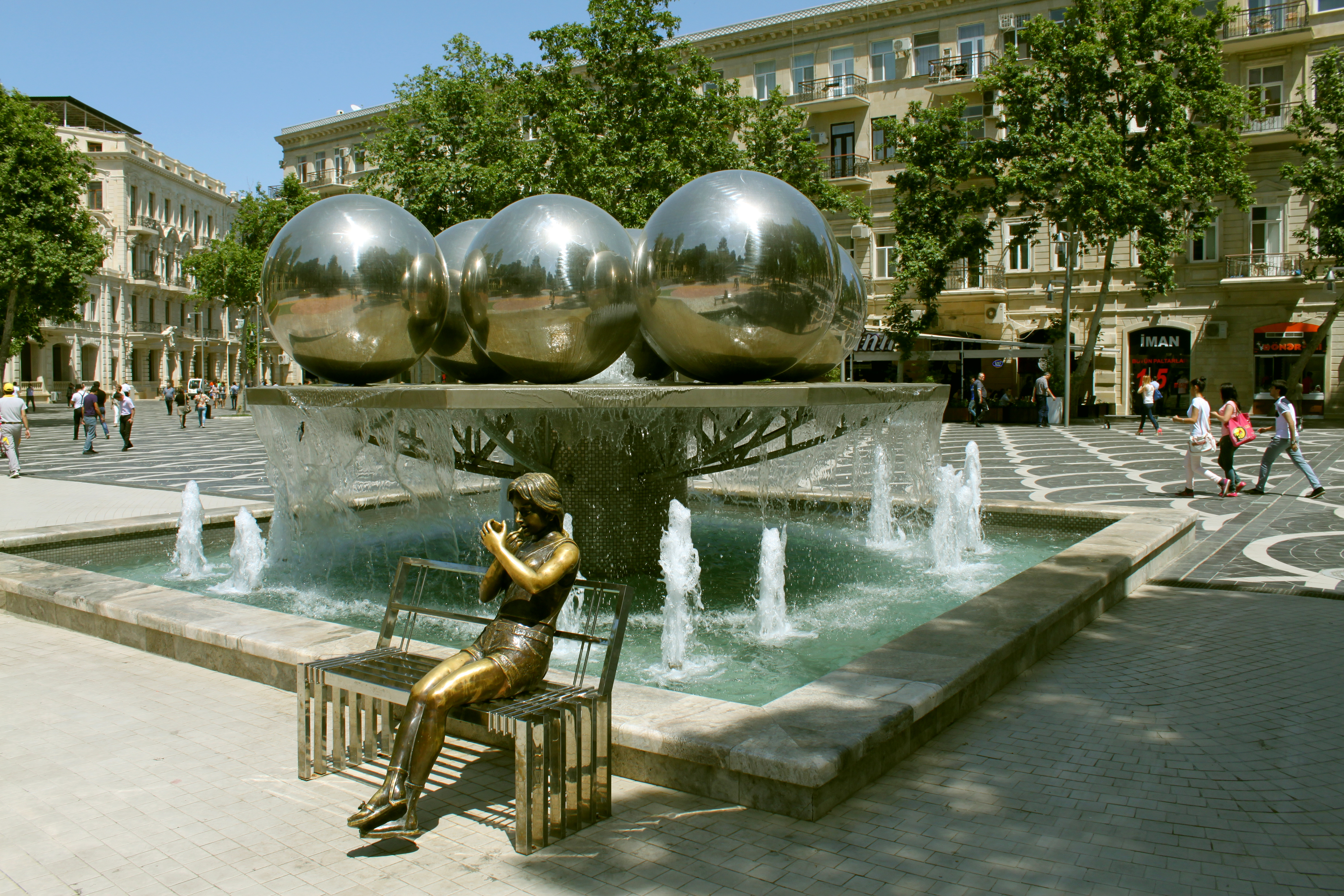 Fountains Square, Baku